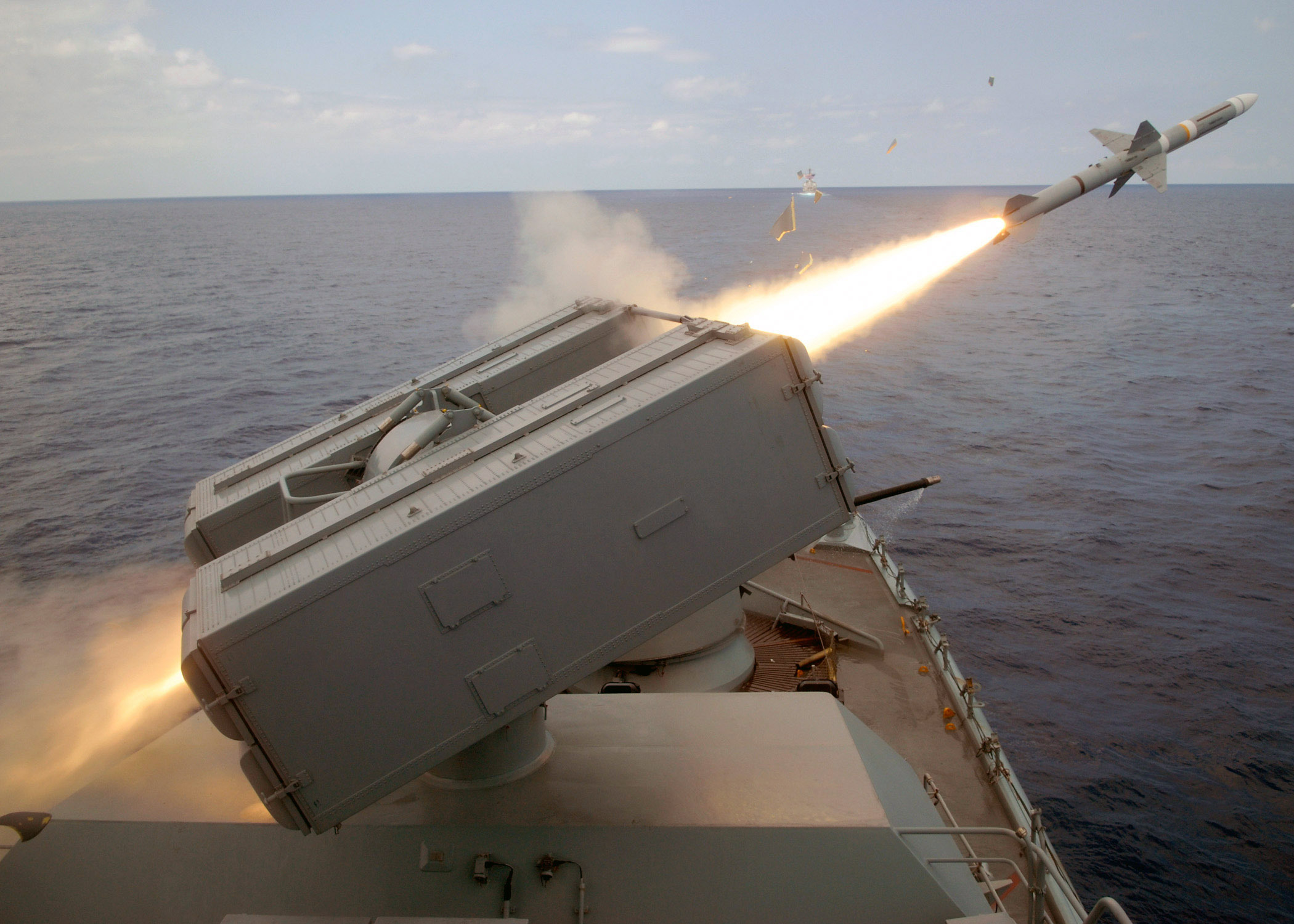 A NATO Sea Sparrow missile is launched from the bow of the German navy Bremen-class frigate Lubeck during the sinking exercise portion of UNITAS Gold. This year marks the 50th iteration of UNITAS, a multinational exercise that provides opportunities for participating nations to increase their collective ability counter illicit maritime activities that threaten regional stability. Participating countries are Brazil, Canada, Chile, Colombia, Ecuador, Germany, Mexico, Peru, U.S. and Uruguay.